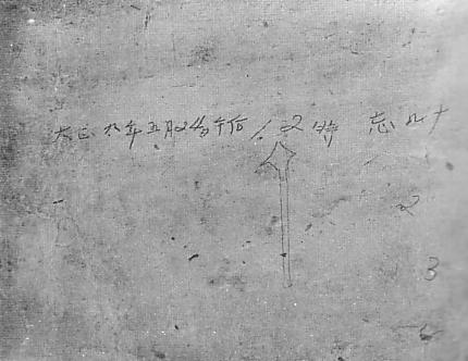 12:00PM, May 24, 1920. Do not forget!